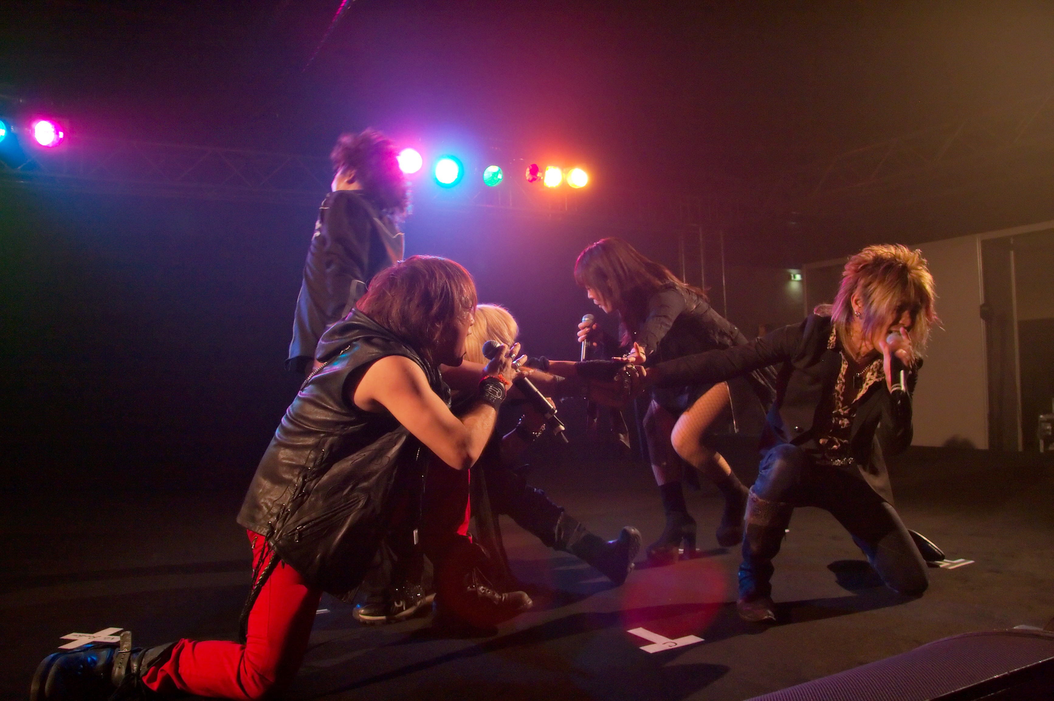 JAM Project live at Chibi Japan Expo 2008 (Paris, France).